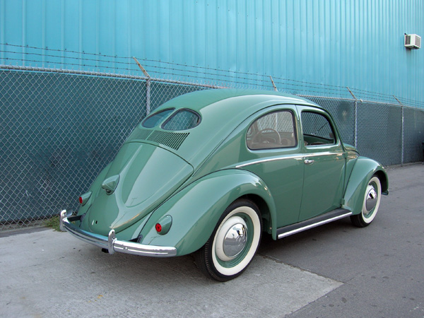 1949 Split window VW Beetle